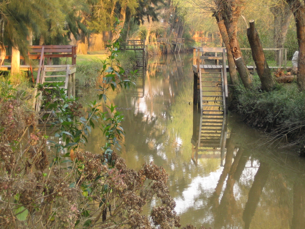 Abra Vieja river. Paraná Delta